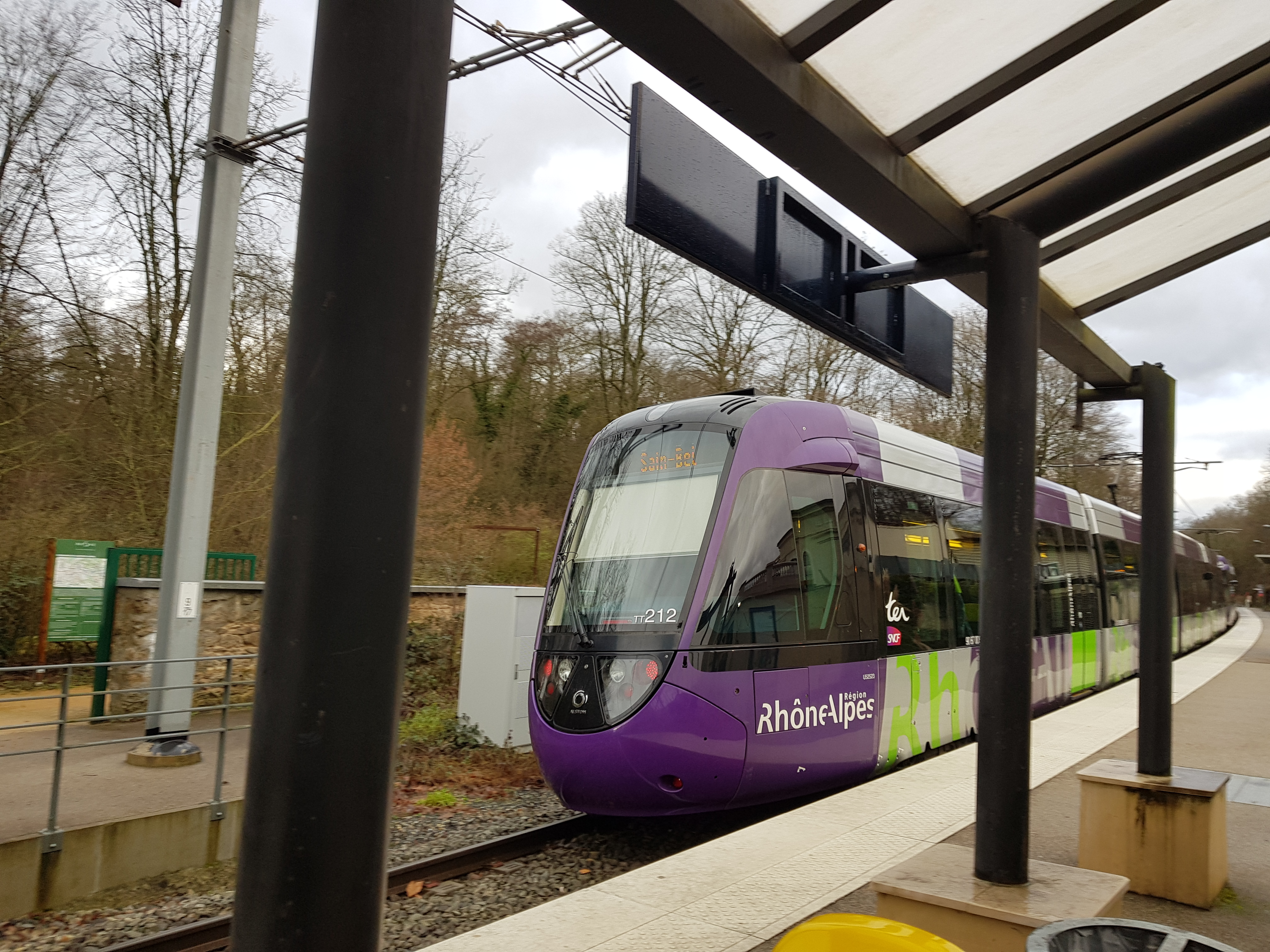 Casino-Lacroix-Laval railway station, in La Tour-de-Salvagny, Lyon metropolis, France